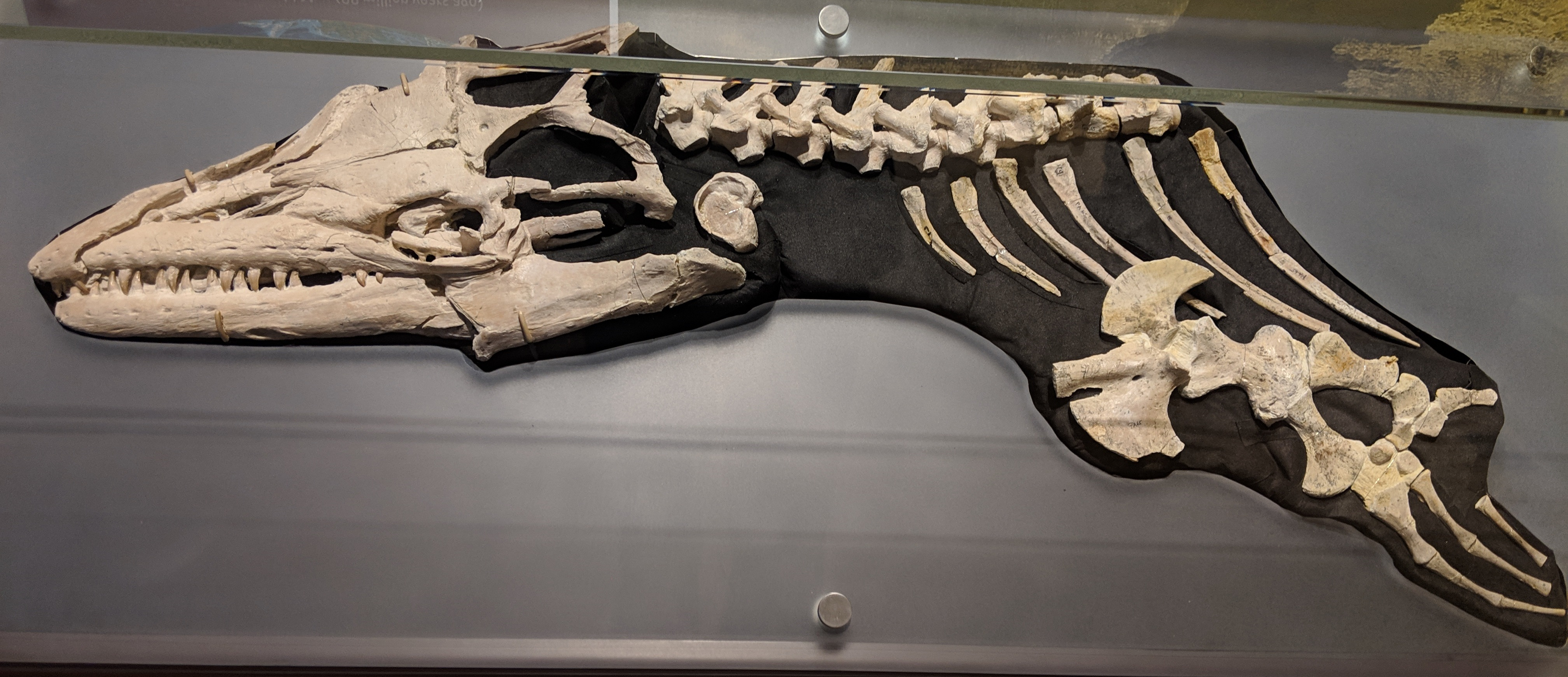 Fossil of Angolasaurus bocagei on temporary display at the National Museum of Natural History.